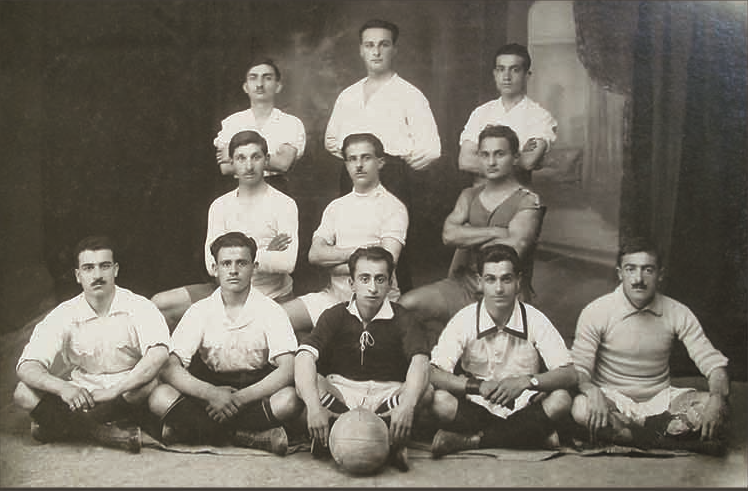 Adana'nın Ermeni futbol takımlarından Shant.